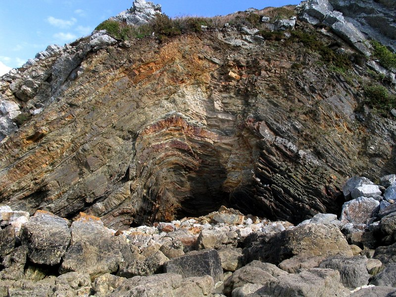 Anticline fold in Ordovician rocks near Camaret-sur-Mer in Crozon peninsula in Brittany, France. The fold is about 10 metres wide.